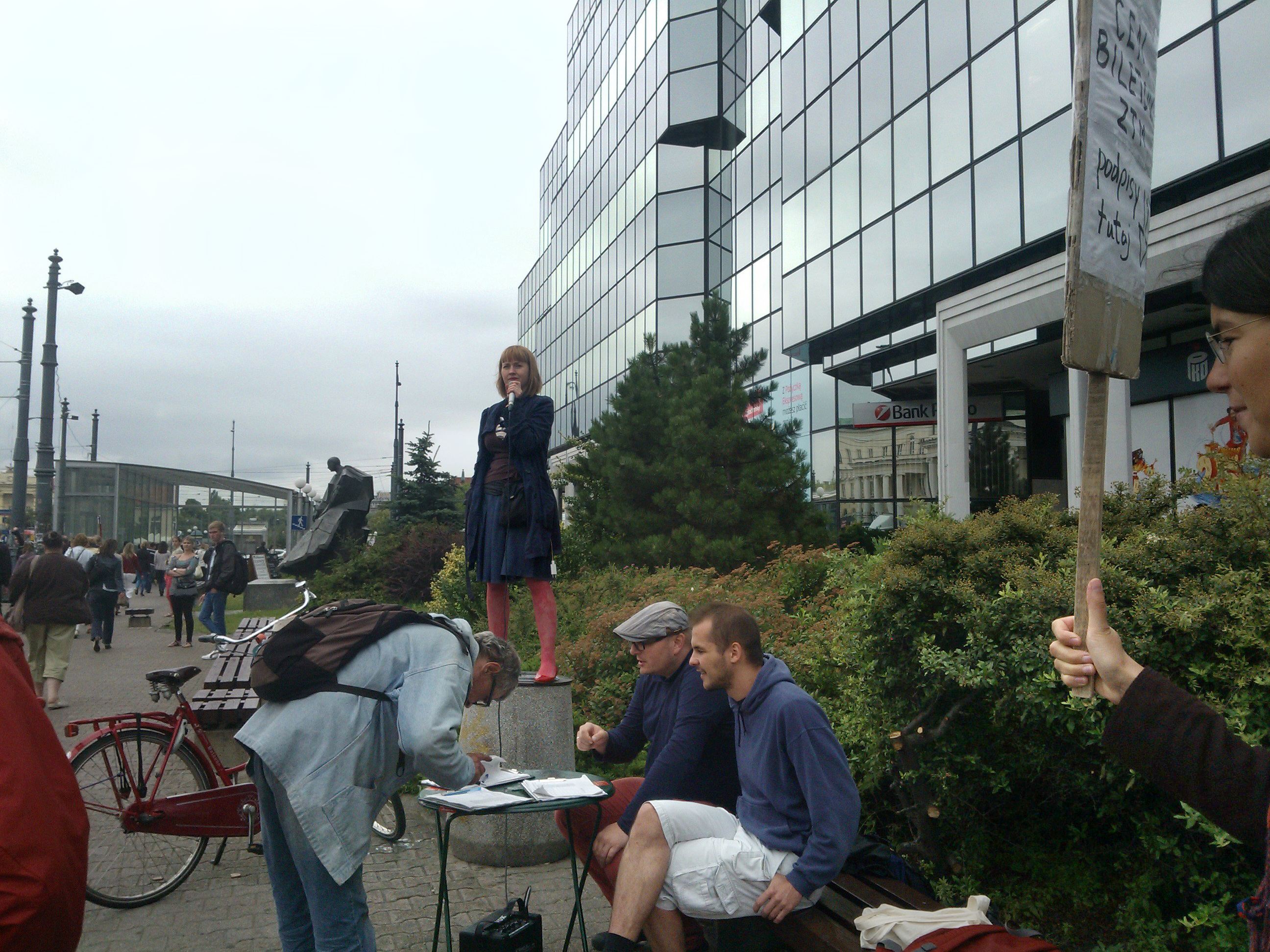 Joanna Erbel collecting signatures against rising prices of public transporttion in Warsaw, July 2013.